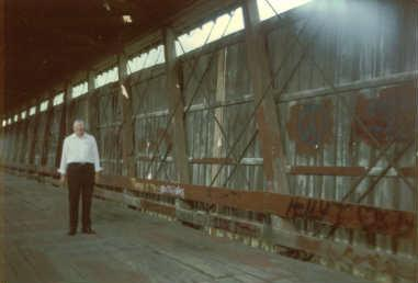 The truss of the Bells Ford Bridge